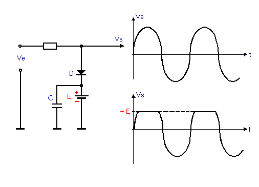 Ecreteur_positif_polarise_positivement02